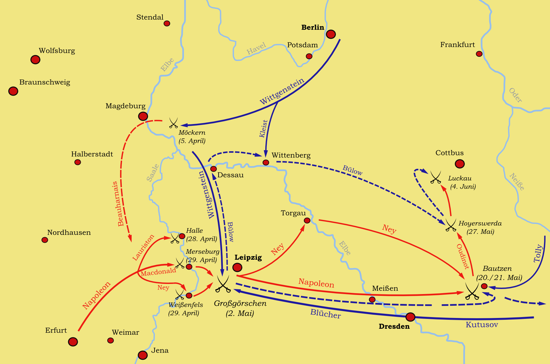 German map of the Spring-Campaign 1813 in Germany during the Napoleonic Wars. The work is based mainly on: Heinz Helmert/ Hansjürgen Uszeck: Europäische Befreiungskriege 1808 bis 1814/15 (2. Aufl.), Berlin (Ost) 1981, S. 205 and was created using Inkscape.